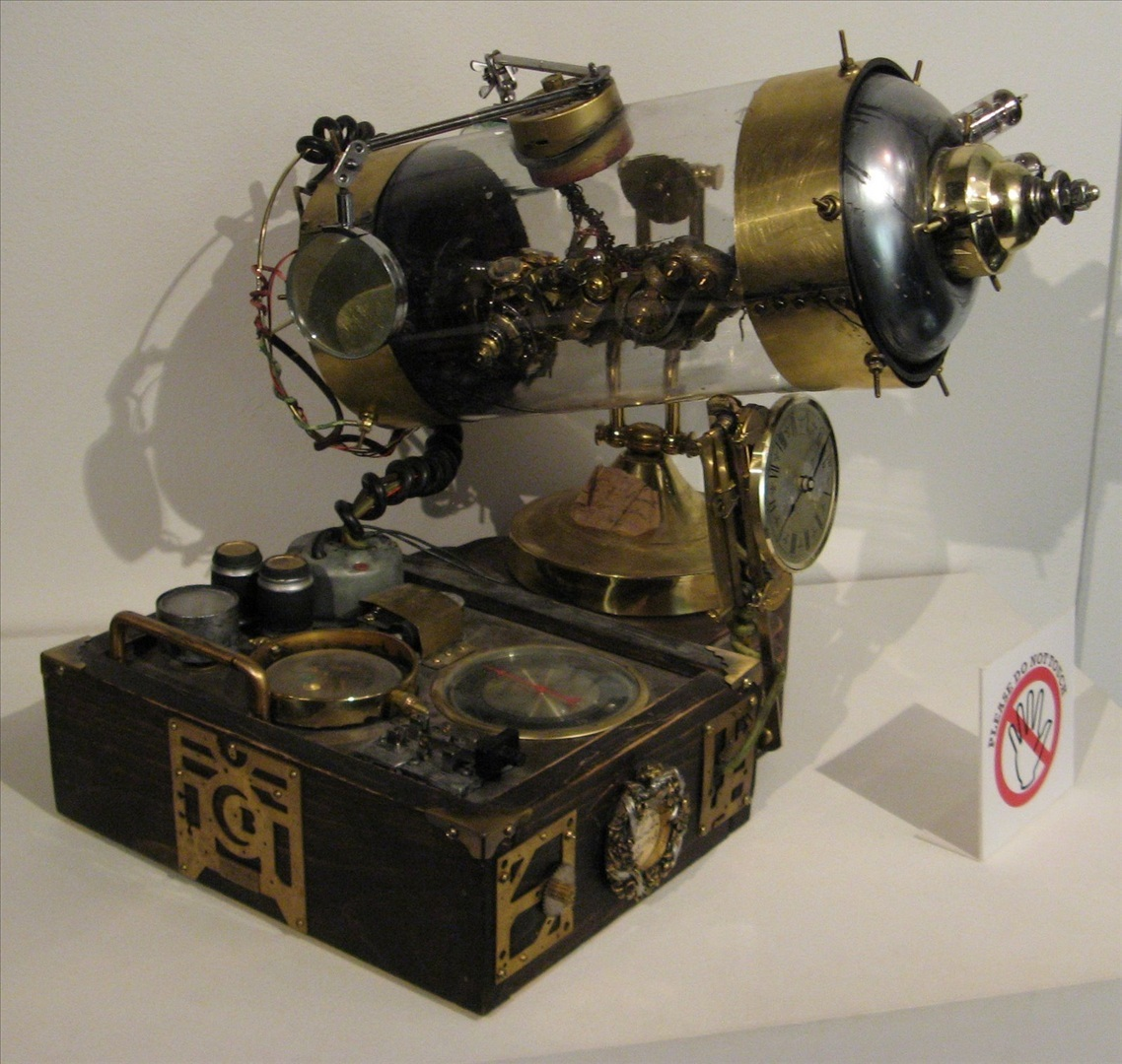 Steampunk prop by Molly Porkshanks Friedrich [1]